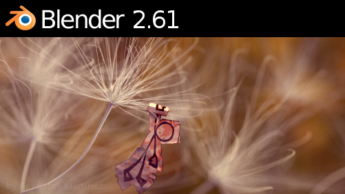 Splash screen of Blender 2.61. The splash screen was made by Reynante Martinez